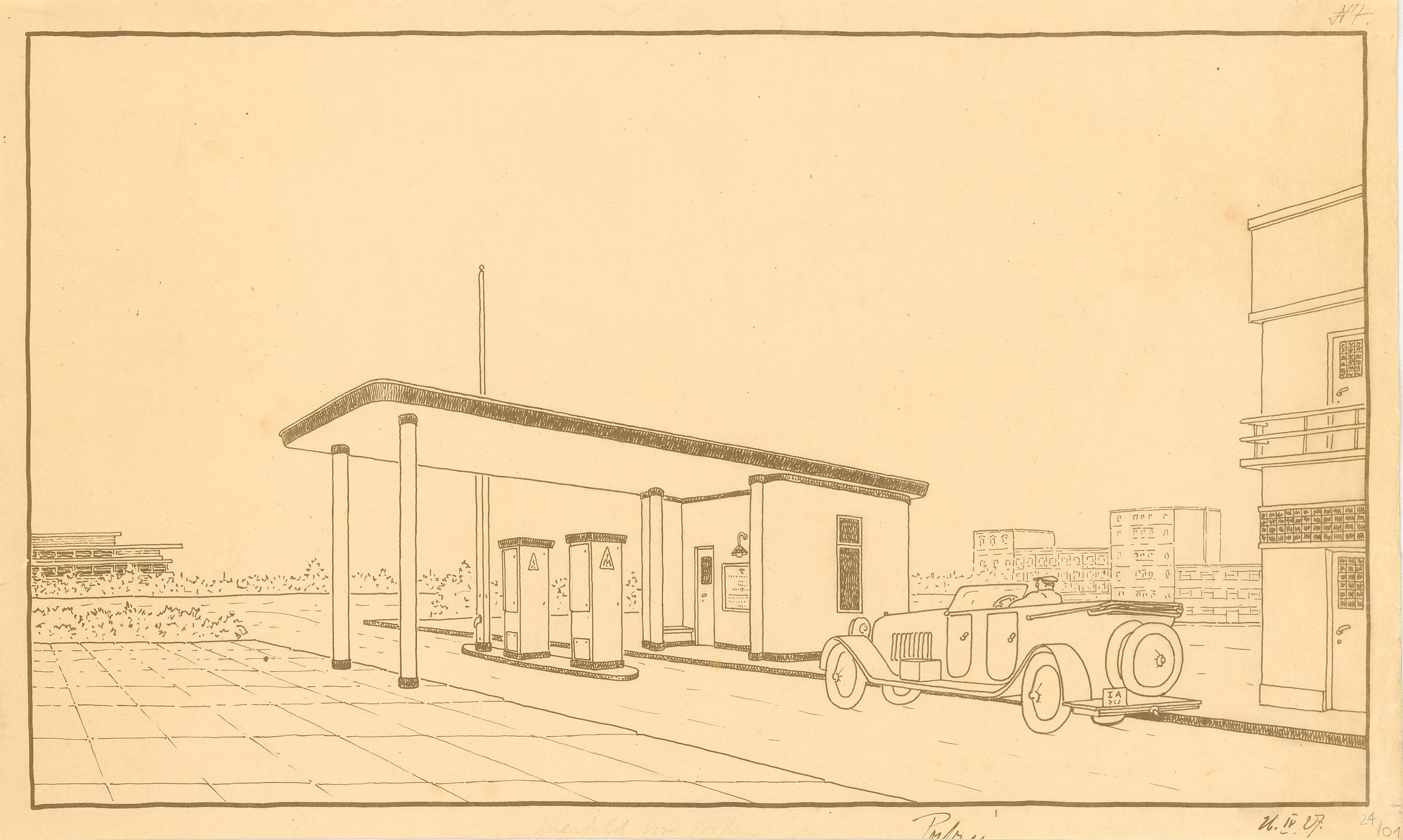 Drawing of a gas station for the german enterprise Reichskraftsprit by Hans Poelzig